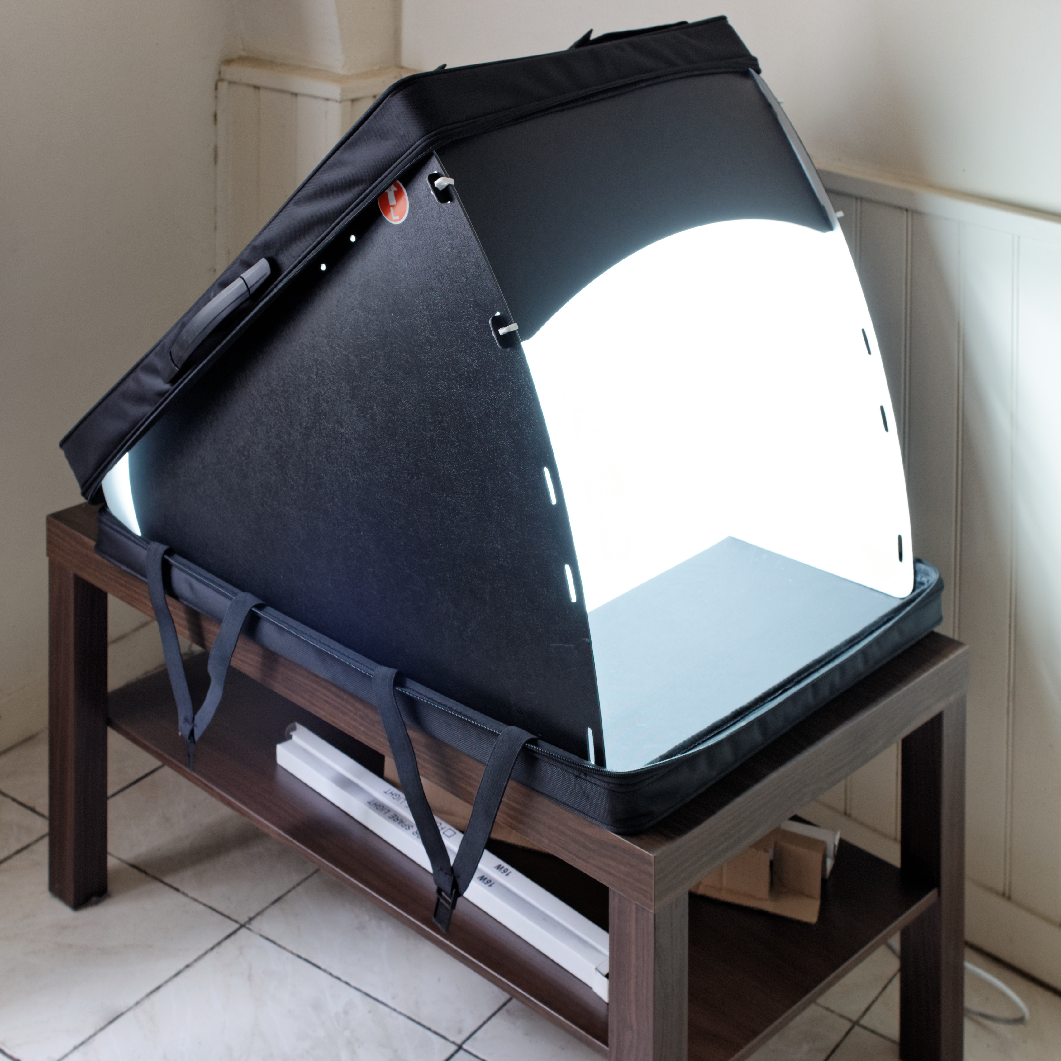 Mini-studio photo Big Ready-To-Go.